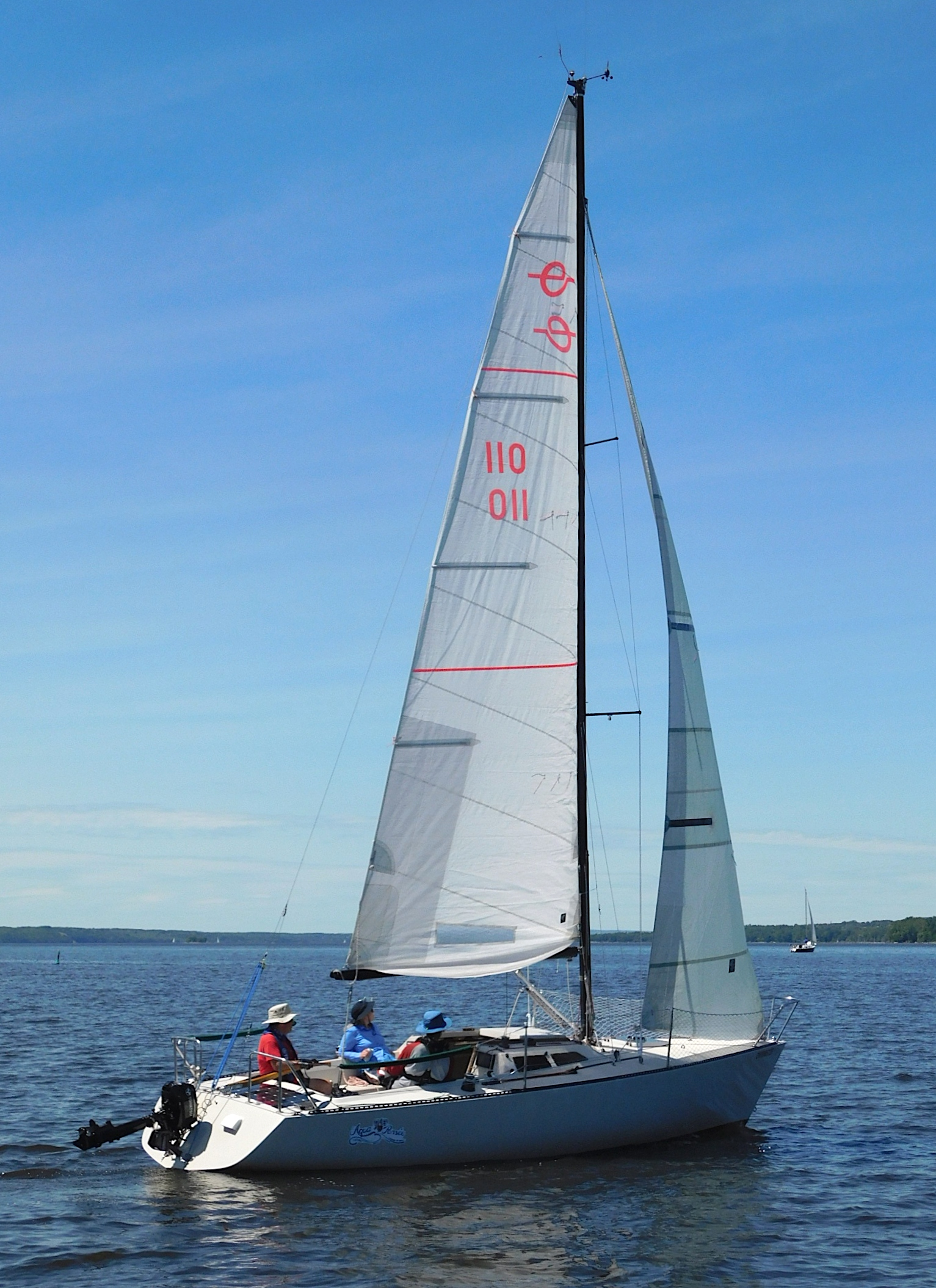 An Express 27 sailboat named Aqua-Pensee.